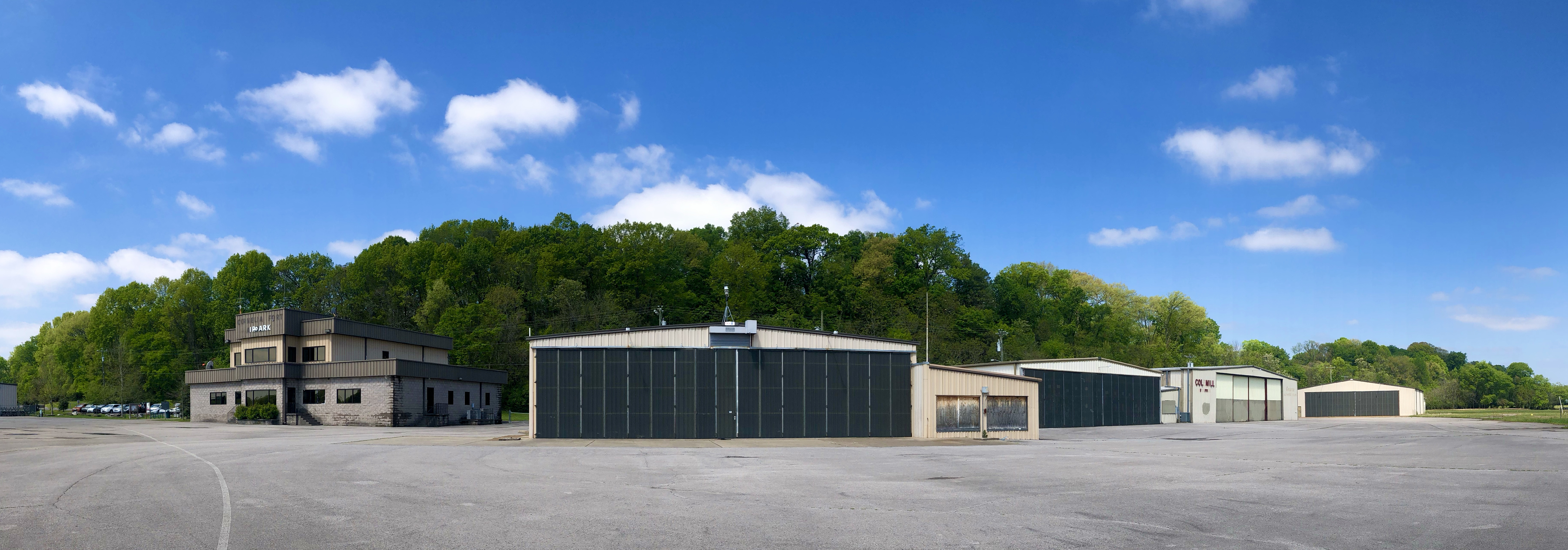 A panorama of the buildings at Cornelia Fort Airpark in Nashville, TN.